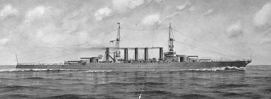 "Artwork by F. Muller, circa 1916, depicting the original design adopted for these ships." and "Note: The original print for this photograph has a vertical crack through its middle."